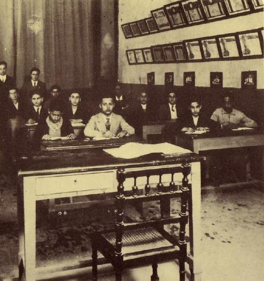 Libyan Jewish classroom in Benghazi Synagogue , Benghazi, Libya, before WWII.